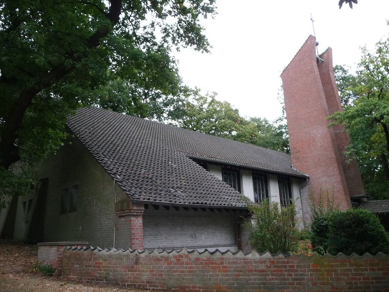 Emmaus-Church in Bremen-Groepelingen